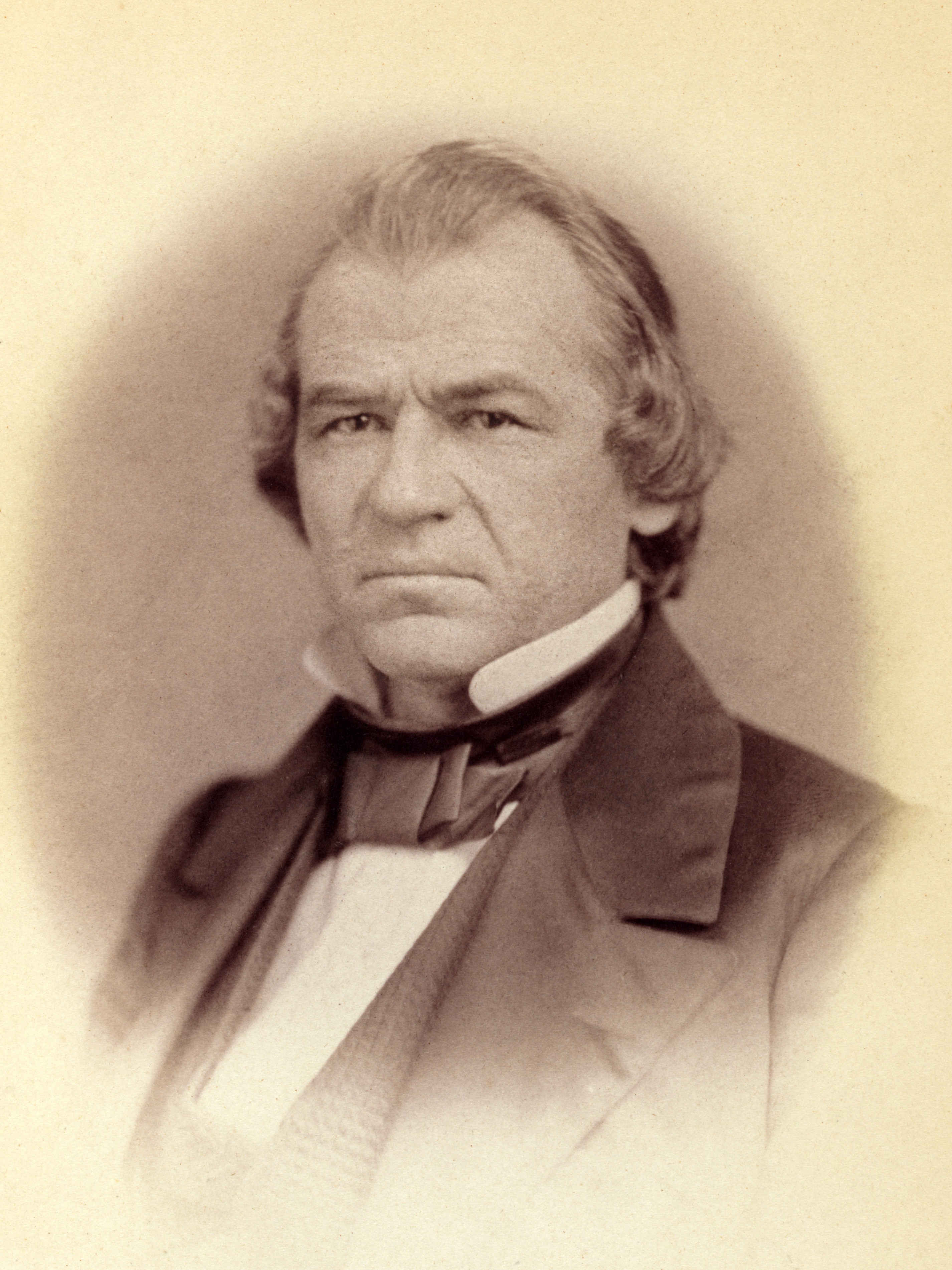 Andrew Johnson, Senator from Tennessee, Thirty-fifth Congress, half-length portraitAndrew Johnson by Vannerson, 1859 (edit).jpg